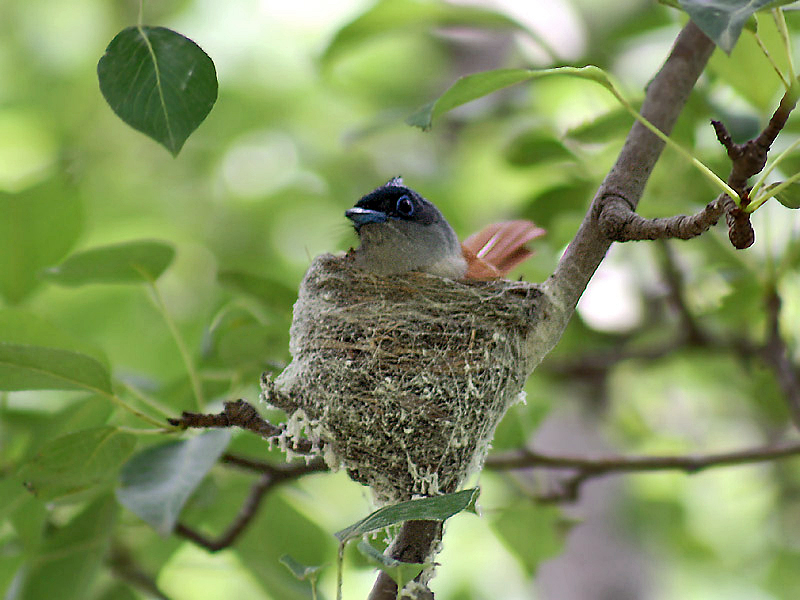 Asian Paradise Flycatcher Terpsiphone paradisi in Kullu District of Himachal Pradesh, India.